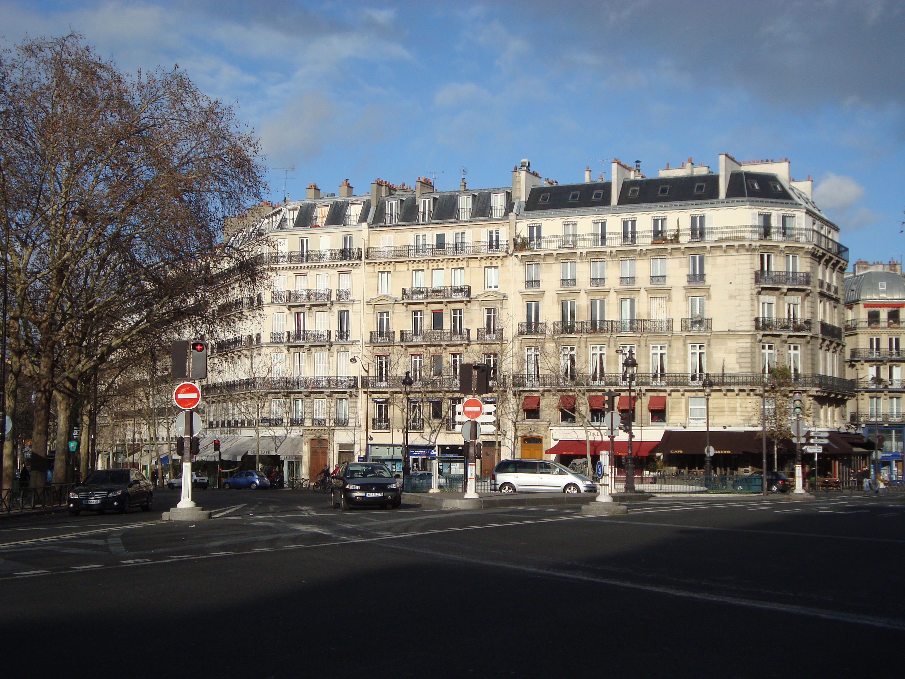 Place Edmond-Rostand in Paris next to the Jardin du Luxembourg